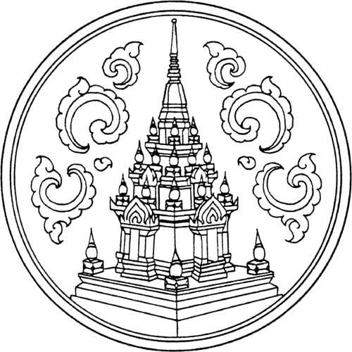 Provincial seal of Surat Thani province.